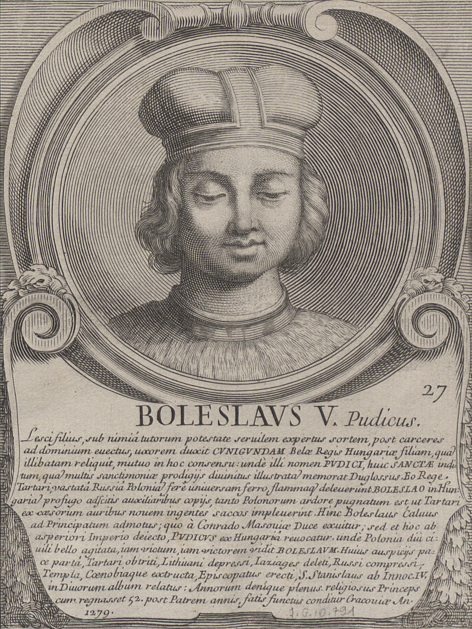 Duke Boleslaus IV of Poland